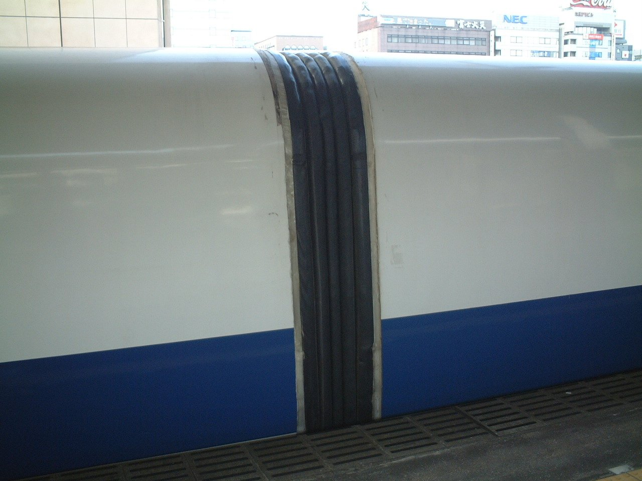 Closeup of rubber diaphragm between cars on JR Central's Class 955 "300X" experimental shinkansen trainset, at Shin-Yokohama Station